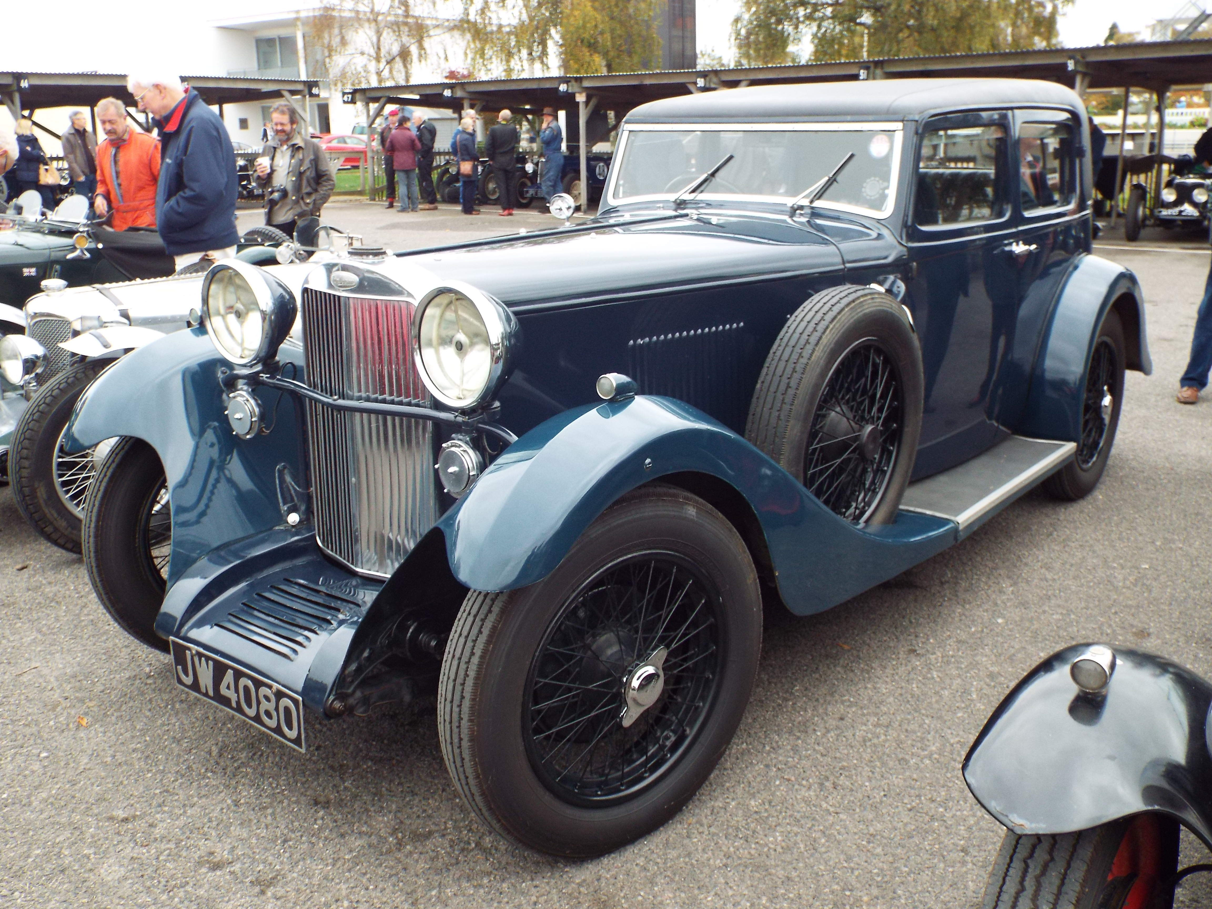 1934 Sunbeam Speed Twenty sports saloon (DVLA) first registered 31 December 1933, 2916 cc 2014 - VSCC Autumn Sprint, Goodwood